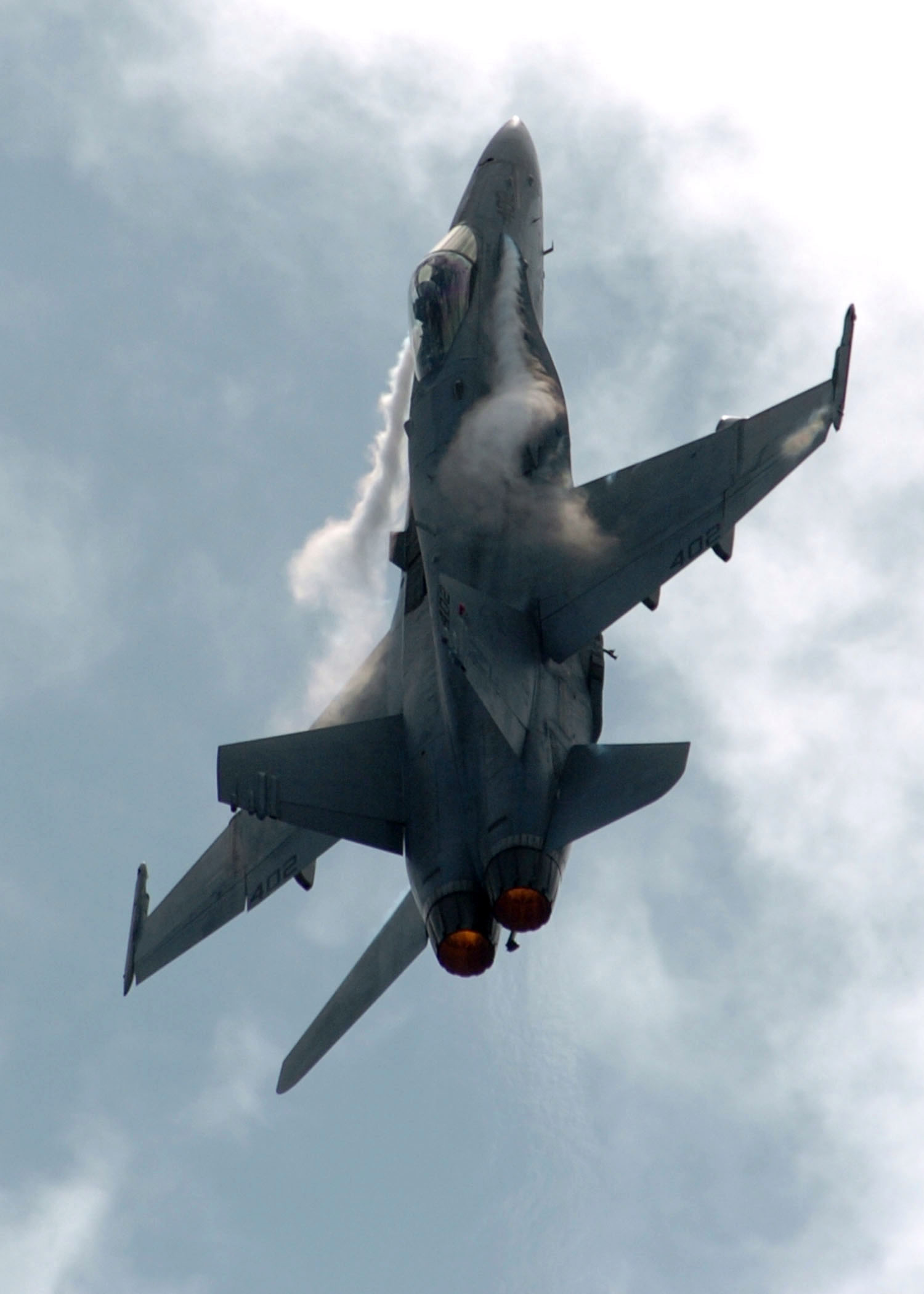 An F/A-18C Hornet, assigned to the "Golden Dragons" of Strike Fighter Squadron One Nine Two (VFA-192), conducts a maneuver, causes vapor to form, near the conventionally powered aircraft carrier USS Kitty Hawk (CV 63).